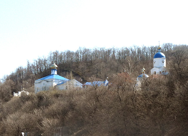 Sviyazhskaya Makarievskaya Pustyn in Tatarstan, Russia